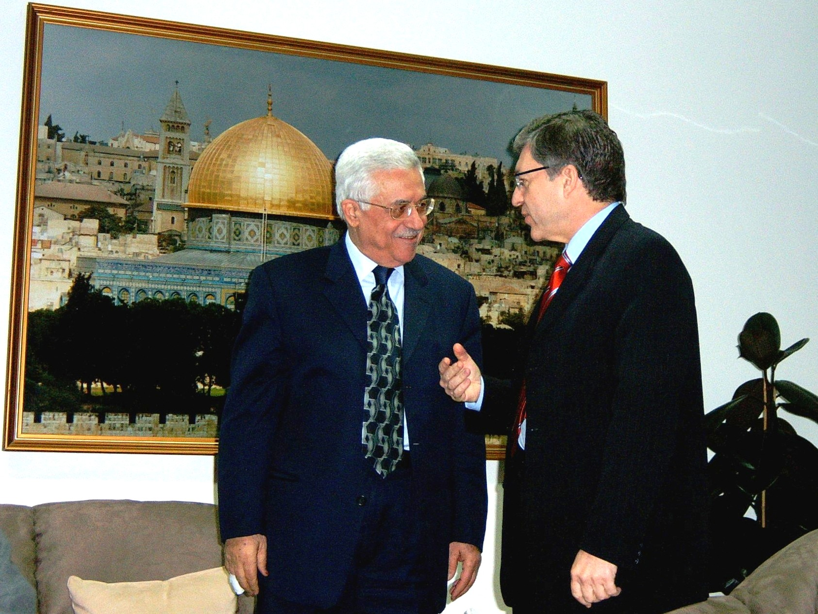 Dr' Yossi Beylin & Abu Mazen, People of Israel